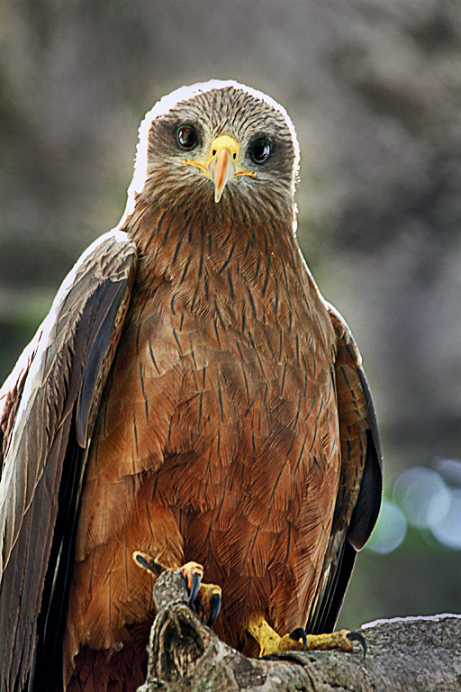 Taken by Schuyler Shepherd(Unununium272). Canon 350D, 100-400mm f/4.5-5.6 L IS Now Yellow-billed Kite, Milvus aegyptius --dysmorodrepanis